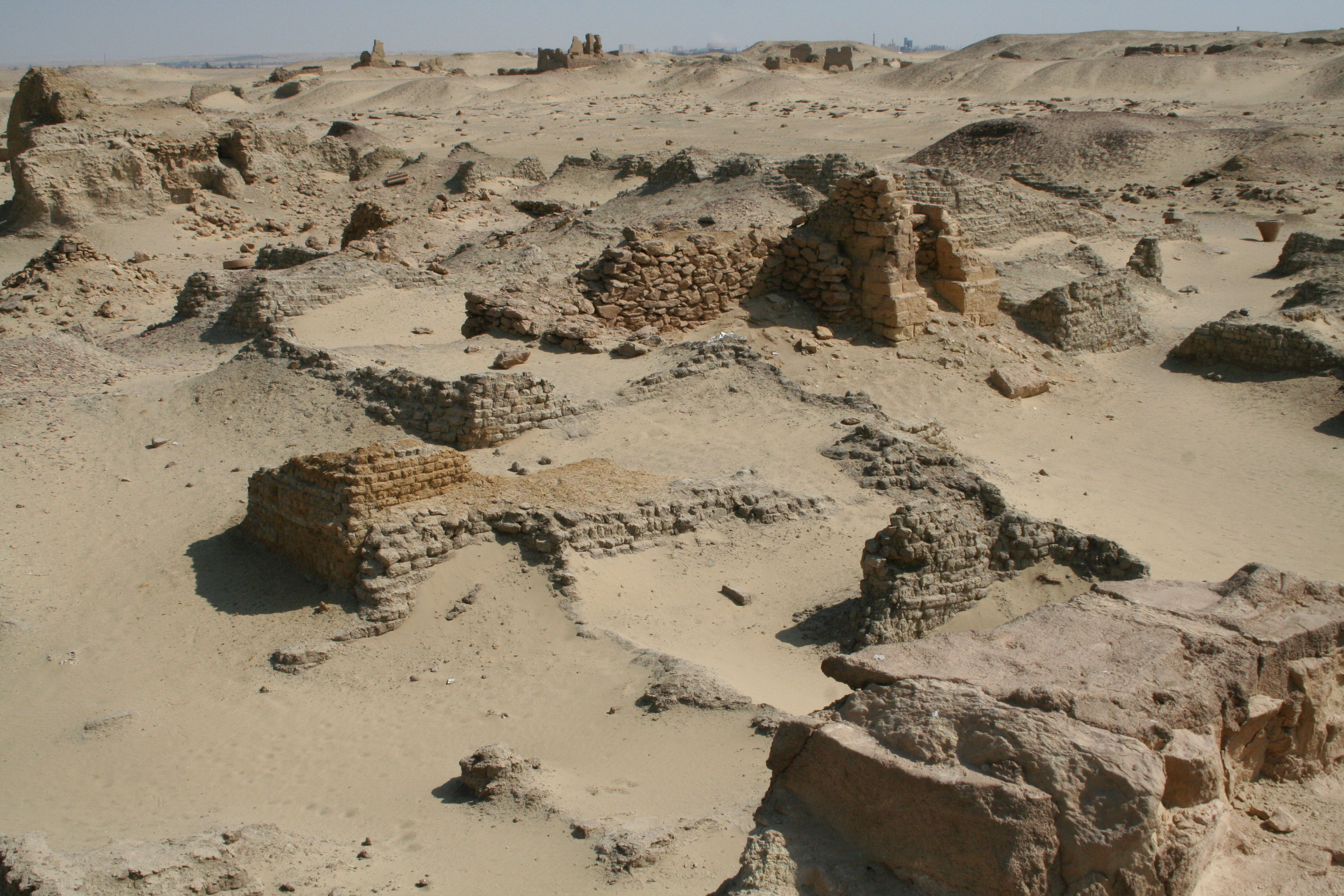 Karanis (Kom Aushim)